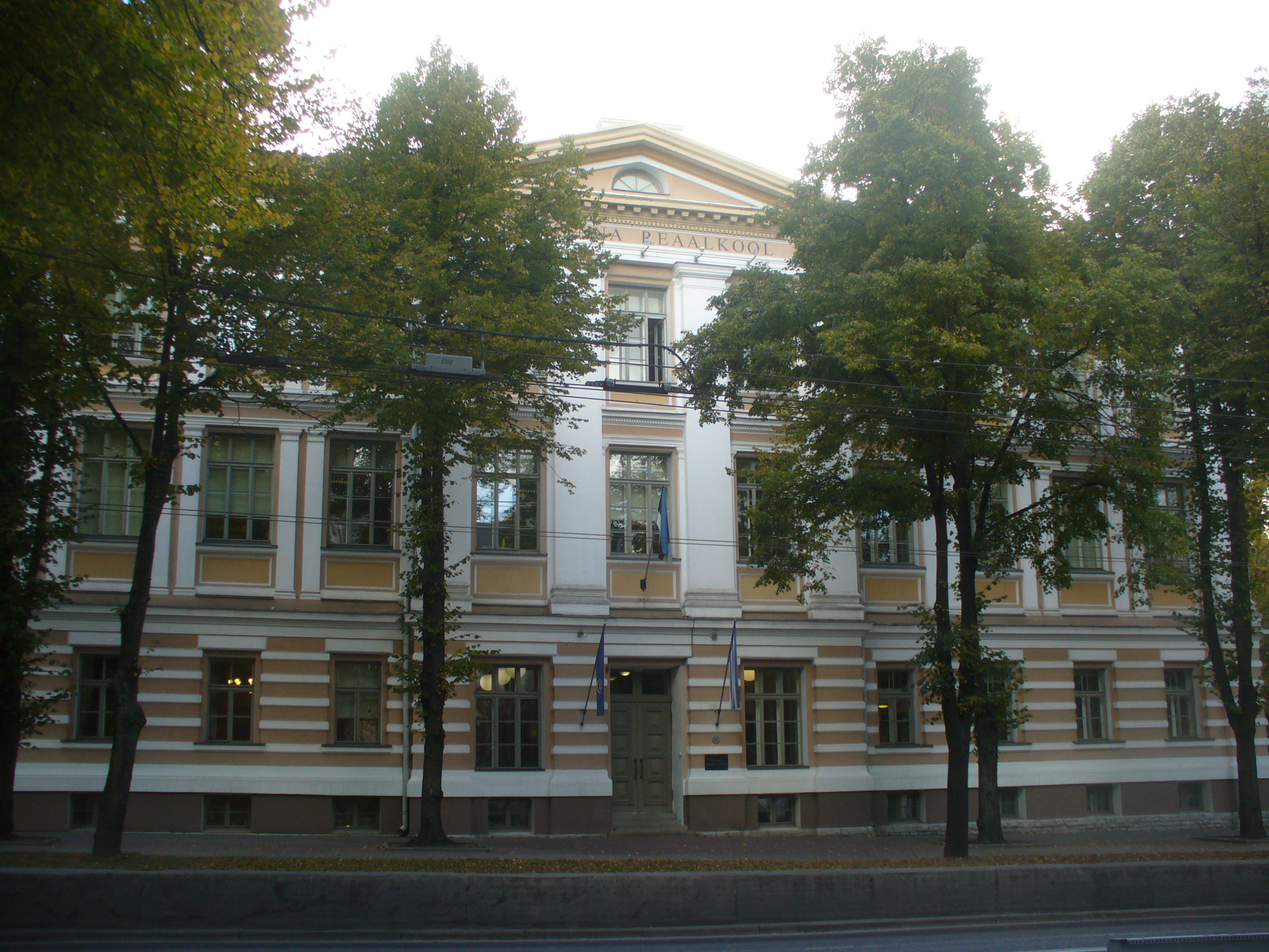 Tallinna Reaalkool school building. View from Estonia puiestee. Tallinn, Estonia.